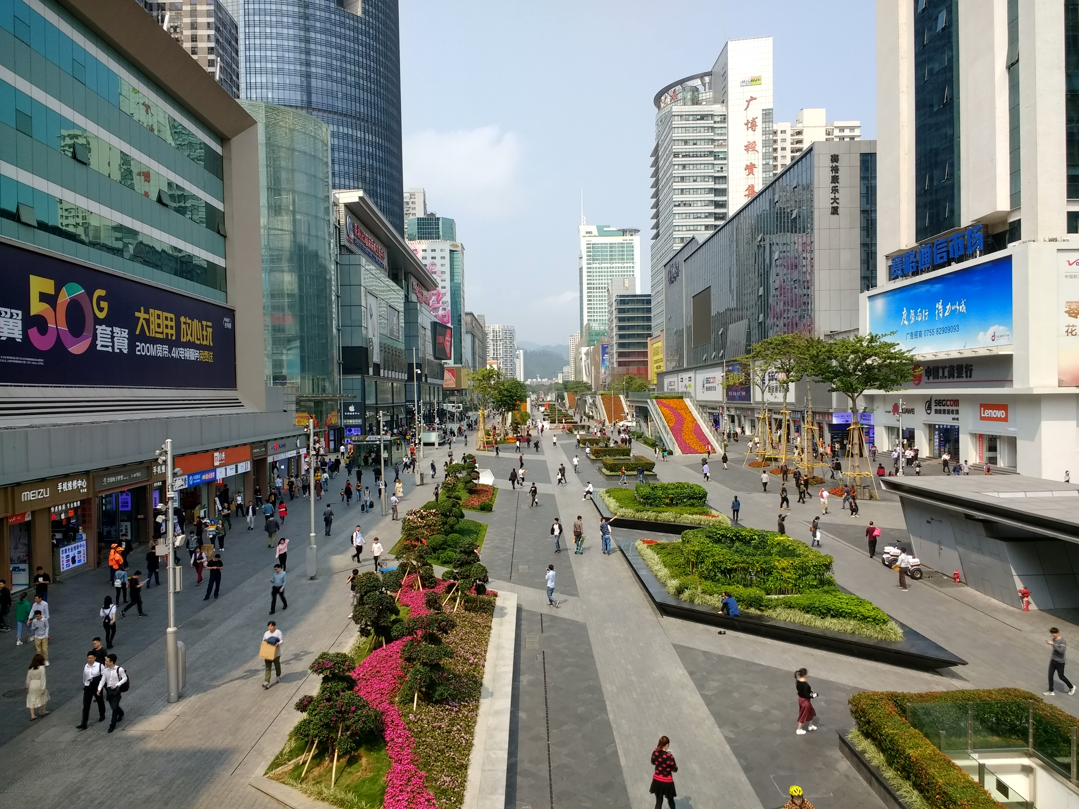 Huaqiangbei (华强北) walking street in Shenzhen, China.